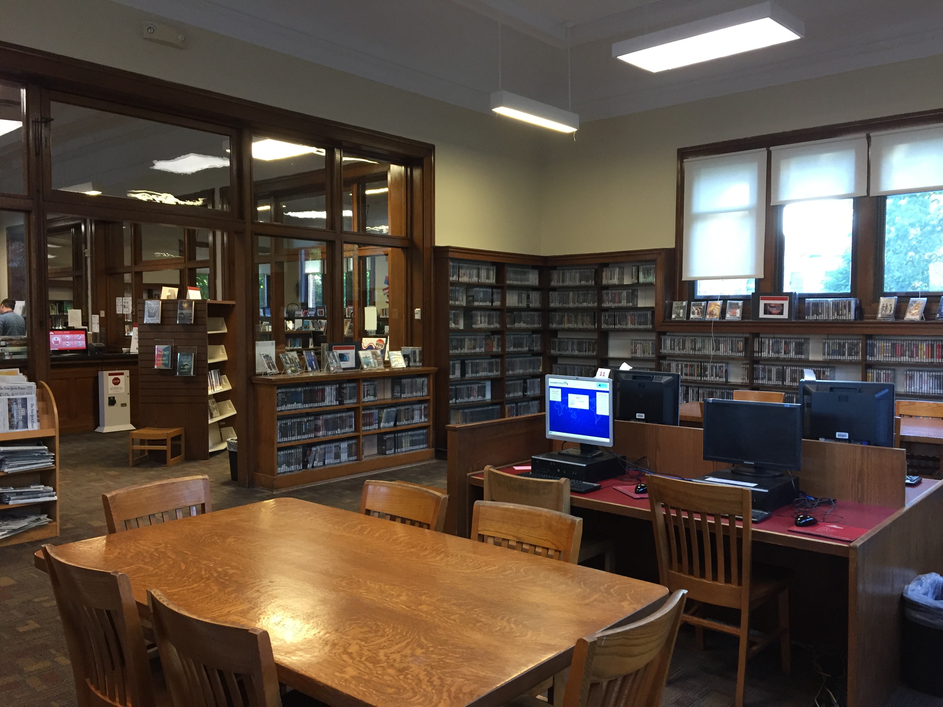 Interior of the Northside Branch of the Public Library of Cincinnati and Hamilton County in Cincinnati in 2019